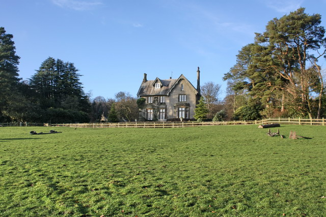 House at Bleasdale Towers Taken from the footpath which is very wet and difficult to negociate.